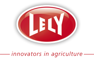 Lely's corporate logo